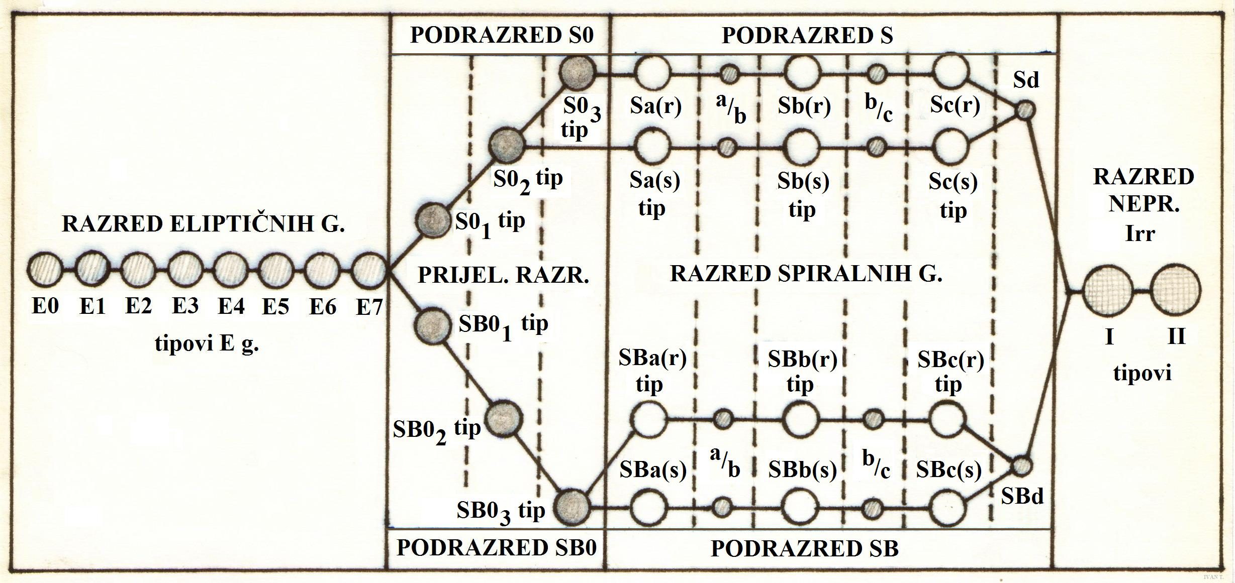 Hubble-sandage Galaxy Classification Detailed Scheme